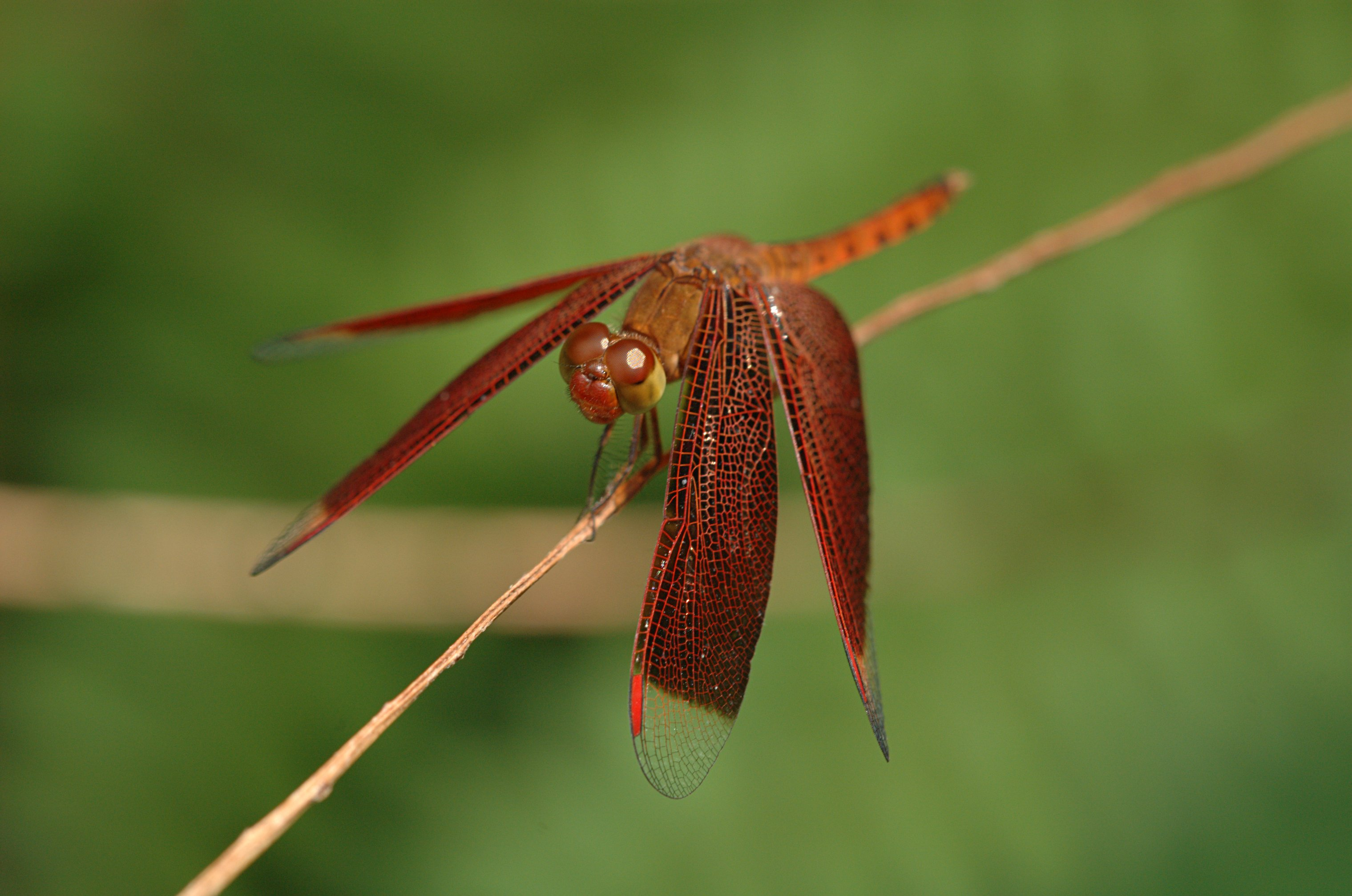 Neurothemis fluctuans dragonfly, Kuala Lumpur Lake Gardens, Malaysia.